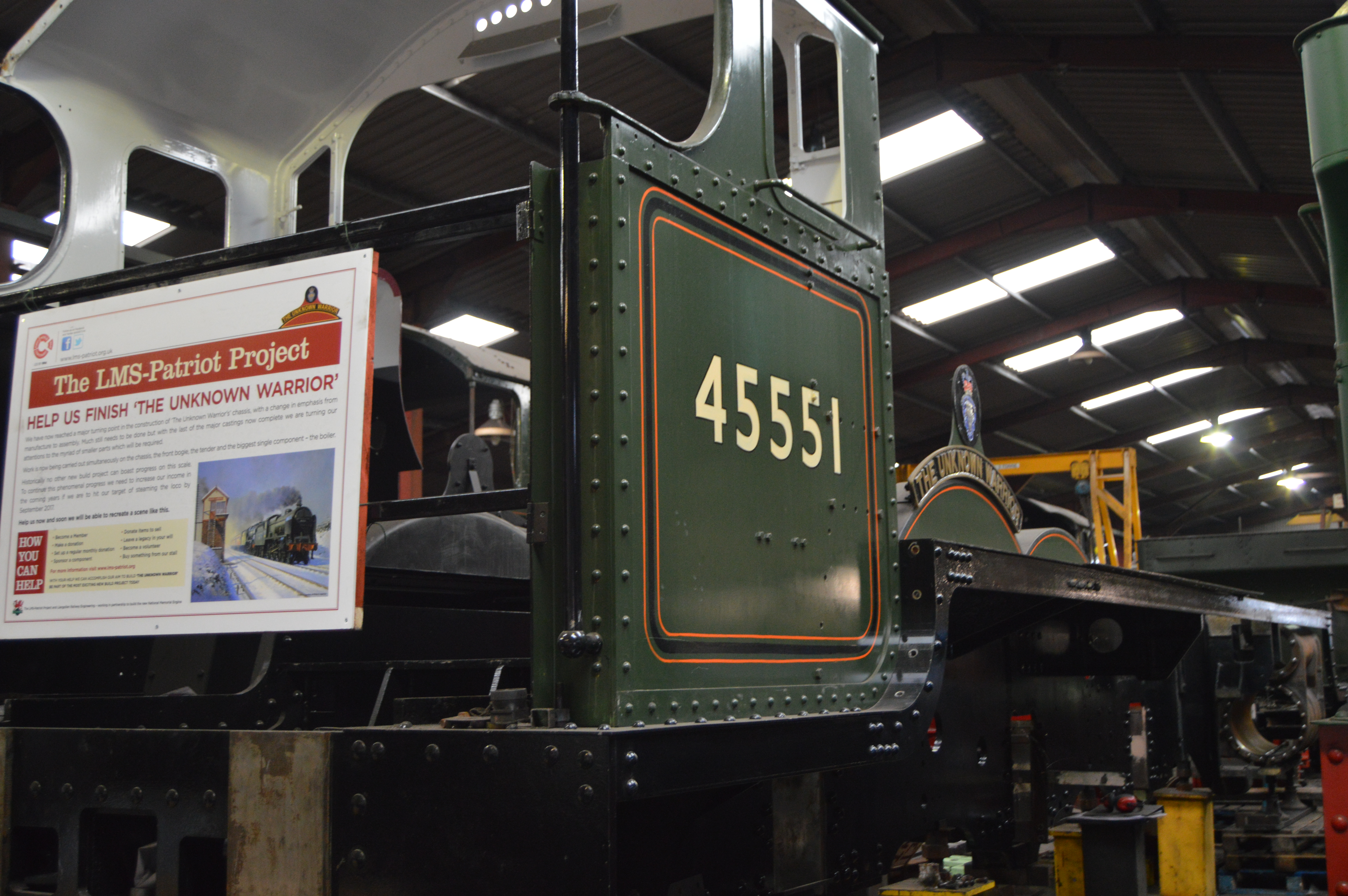 The chassis of Newbuild LMS Patriot 4-6-0 no 45551 The Unknown Warrior inside the shed at Llangollen (the chassis has since had it's driving wheels and smokebox fitted and will soon be receiving it's new boiler).